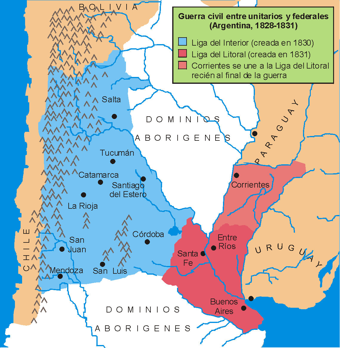 Cvil war in Argentina (1828-1831). The argentine provinces form form two alliances and march to battle.